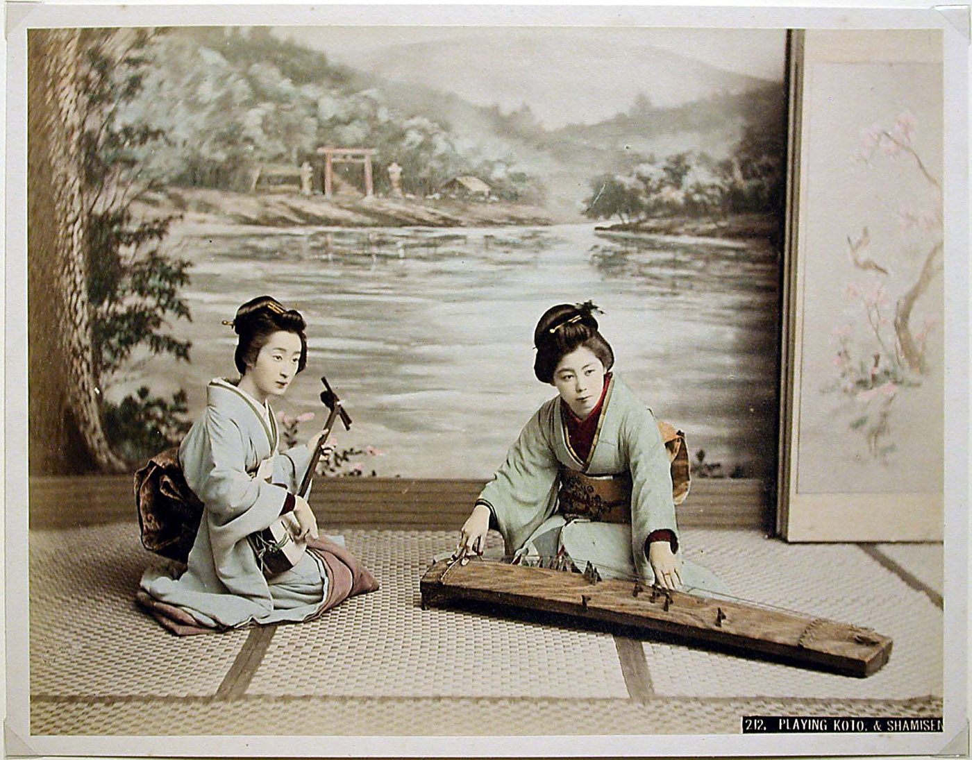 1 photographic print : hand coloring ; image 20.3 x 26.4 cm., on mount 21 x 27.7 cm.